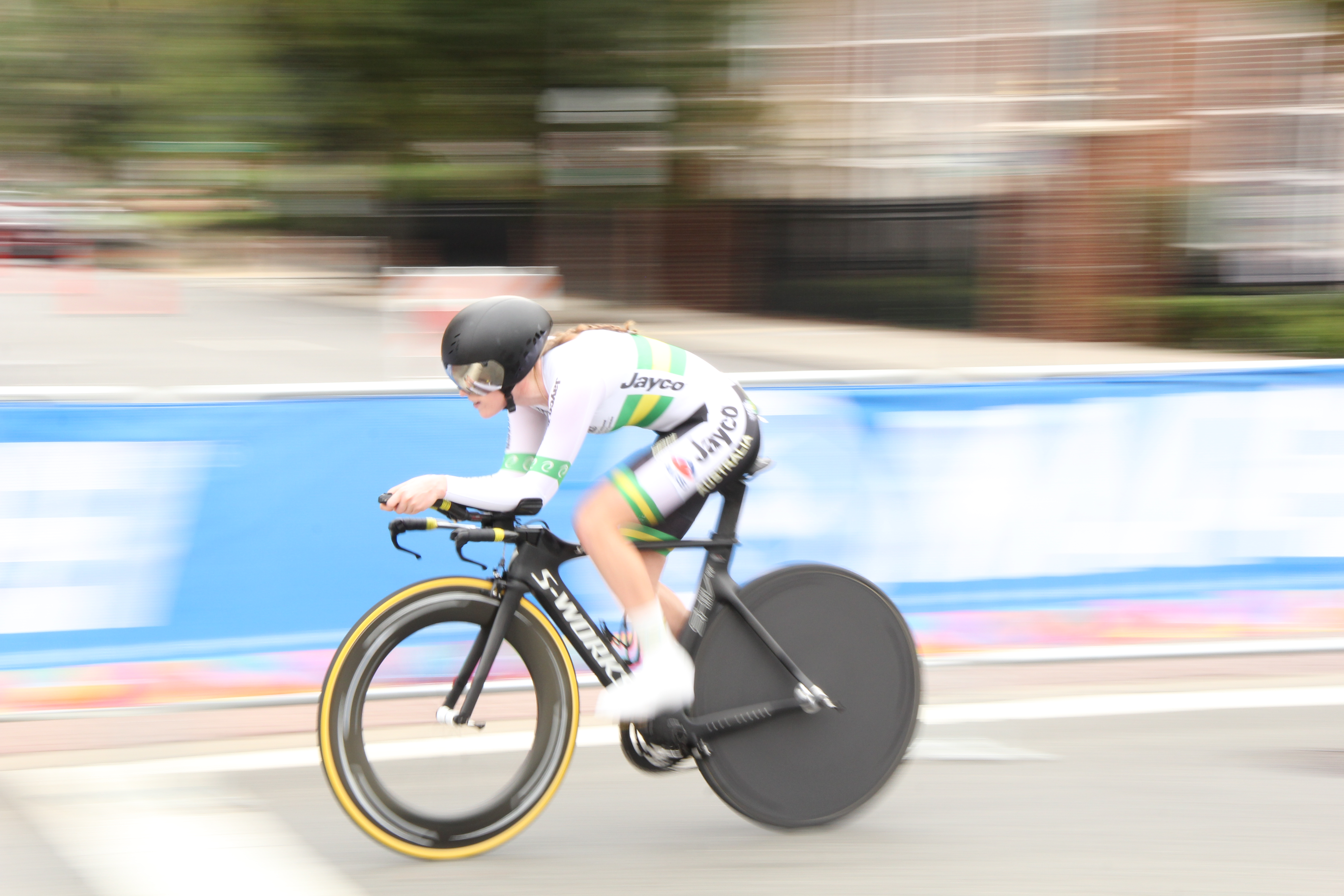 The world has come to Richmond. Welcome! Bienvenidos! Willkommen! 2015 UCI Road World Championships, Women's junior time trial, in Richmond, United States